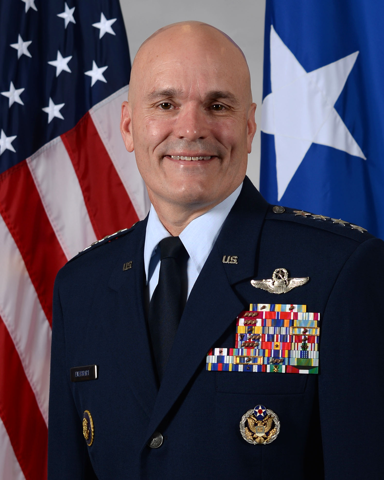 Official portrait